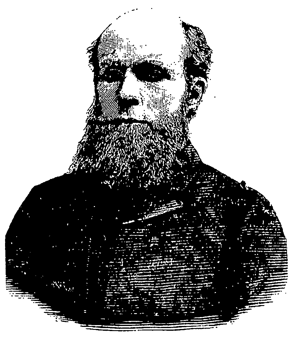 The Norwegian prime minister Carl Otto Løvenskiold.